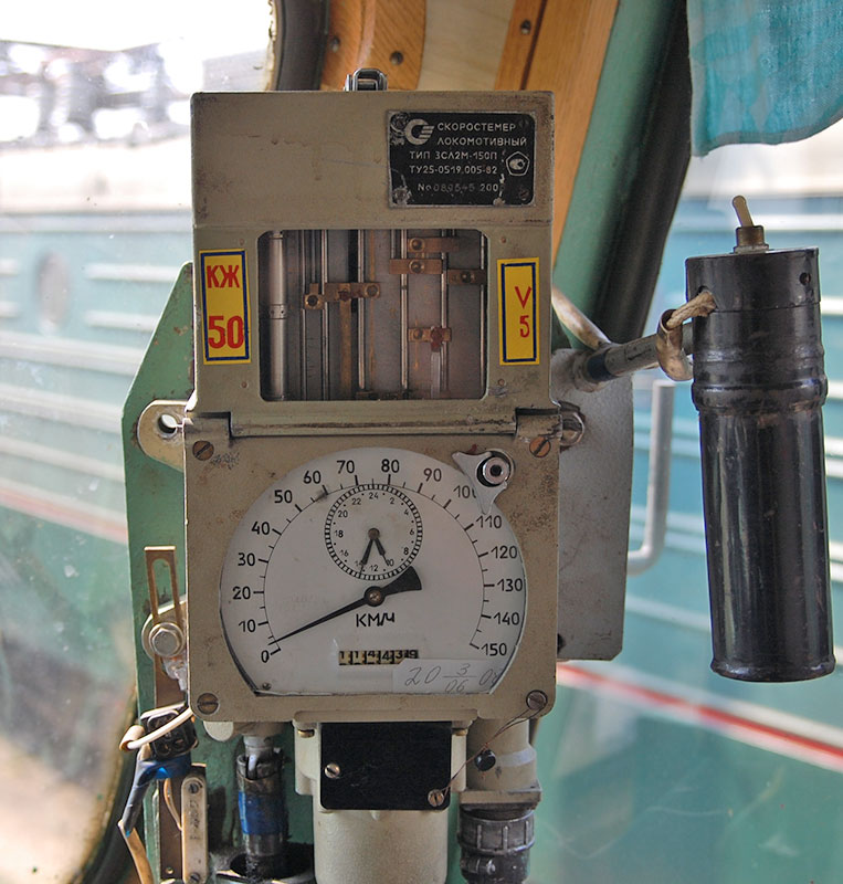 Speedmeter 3SL-2M-150P, cab of electric locomotive VL82M, Ukraine